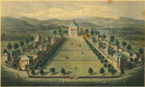 Academical village of the University of Virginia (the size of the Rotunda in the middle is actually exaggerated) from source at : "Comments: Rotunda and Lawn, from the south with cattleguard at foot of Lawn. Published by C. Bohn. "Entered according to Act of Congress, A. D. 1856 by C. Bohn in the Clerk's Office of the District Court of the United States, Dist. of Columbia." Engraved by J. Serz. 1 color engraving, 4 b&w photographs, 2 page prints, 2 negative photostats." Image Filename: prints00018 Accession Number: RG-30/1/8.801 & Betts #46 Copy Negative Number: Neg 4x5 71, Neg 4x5 1891D